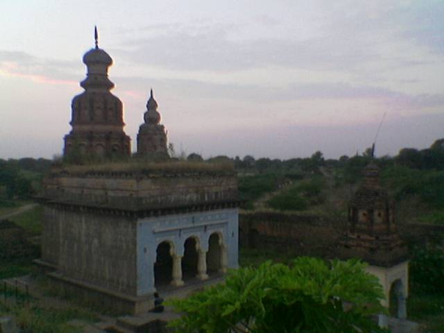 Balkhandeshwar (Shiva) Temple on the laft banks of River Saraswati, Shrigonda